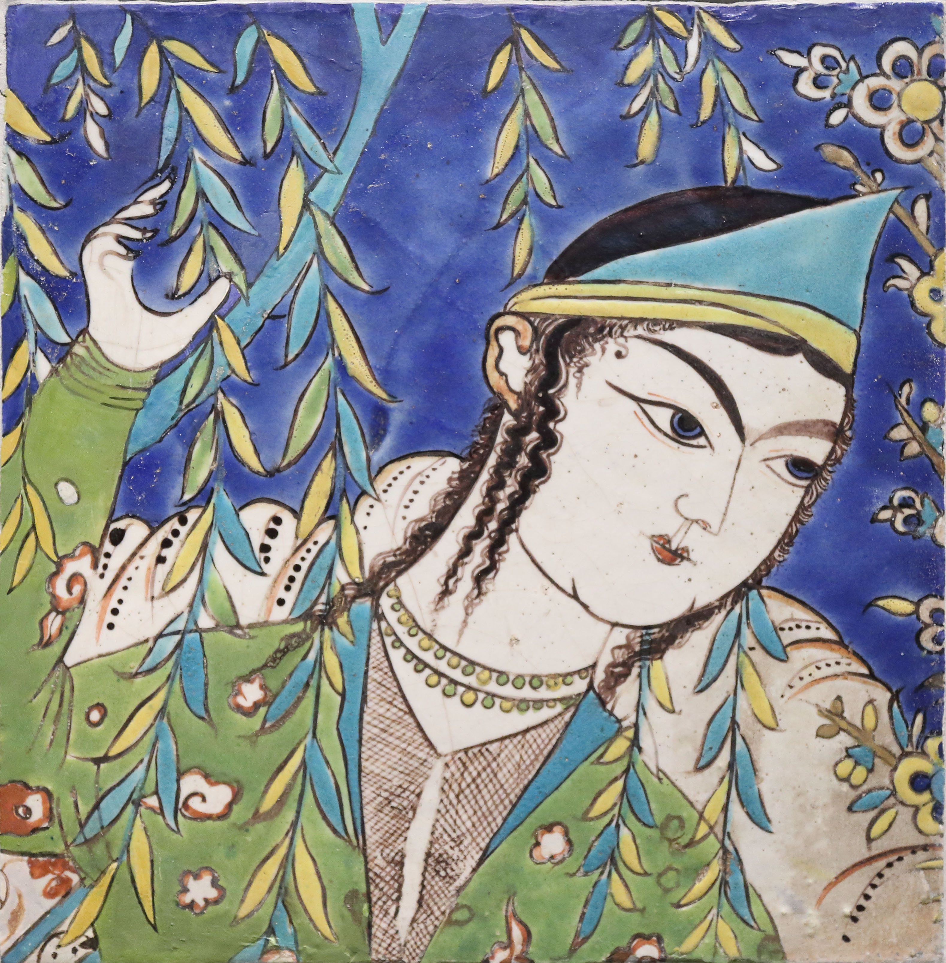 Picnic in a garden. One tile from a tiled panel